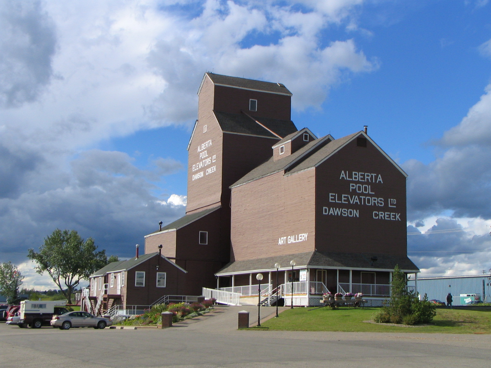 Art gallery located in a renovated grain elevator in Dawson Creek, British Columbia. Grain elevator was moved from its original location into Northern Alberta Railway Park seen here. Photo taken in August 2005.